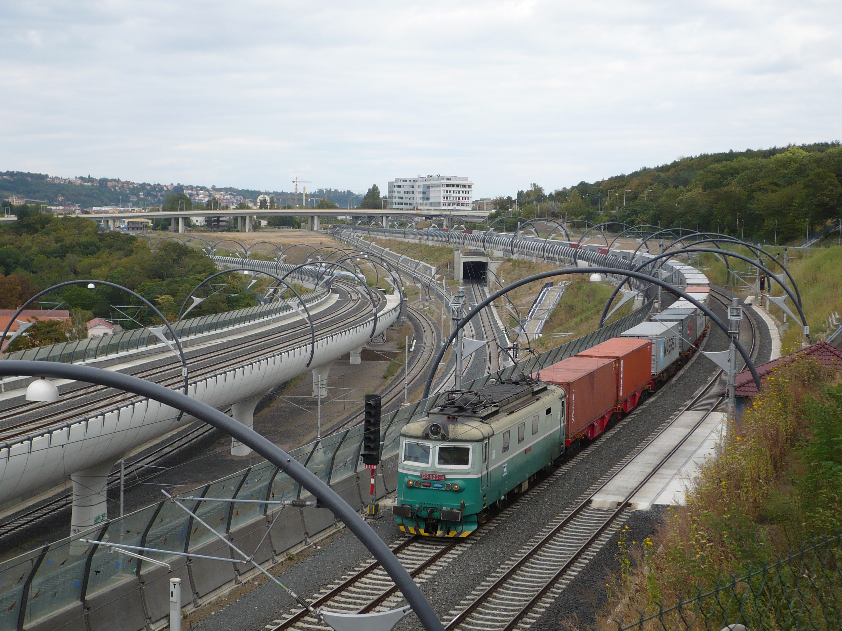 Locomotive 123 023-4, New Connection, Prague